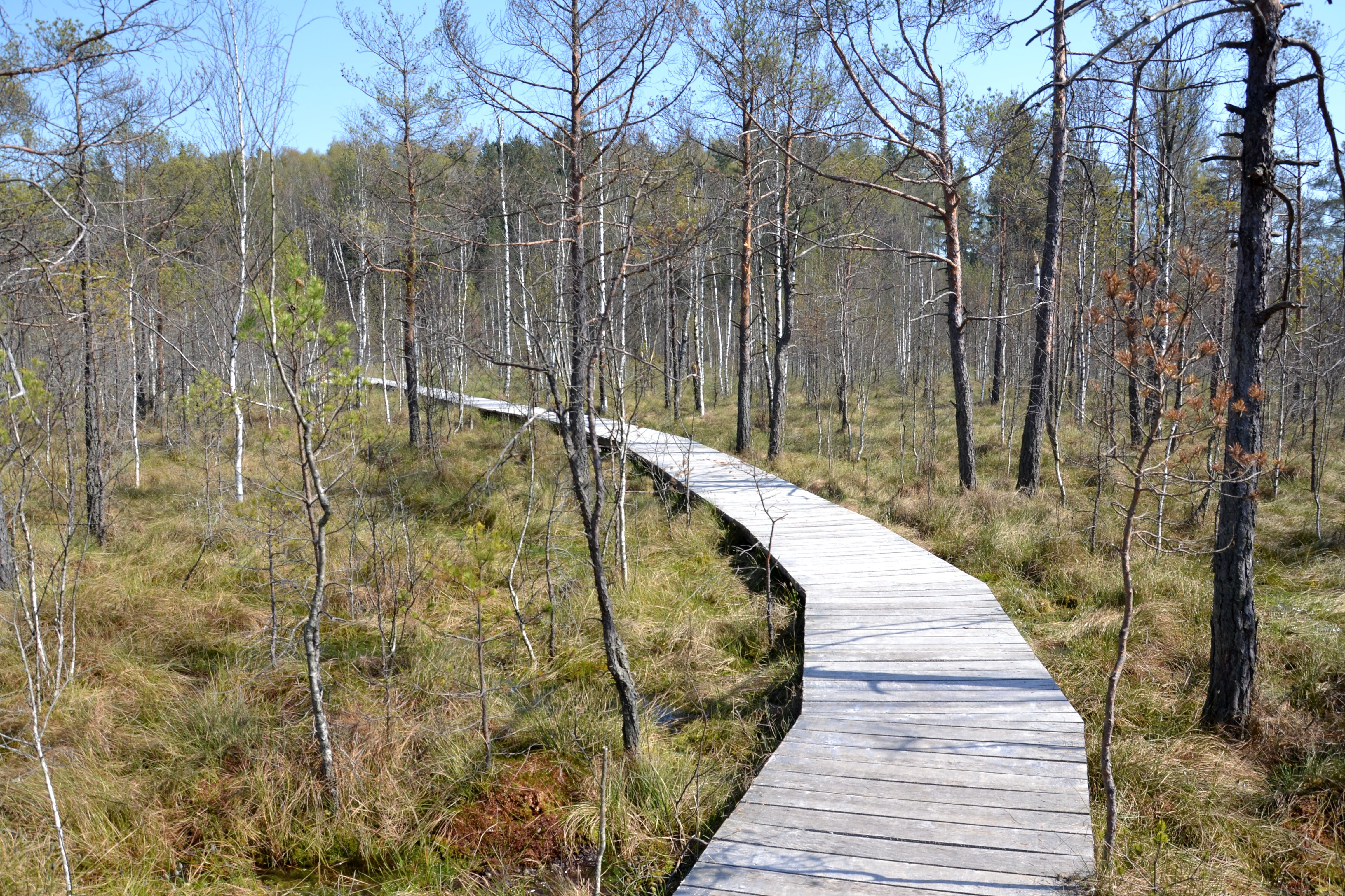 Pathway in Dubrava strict nature reserve